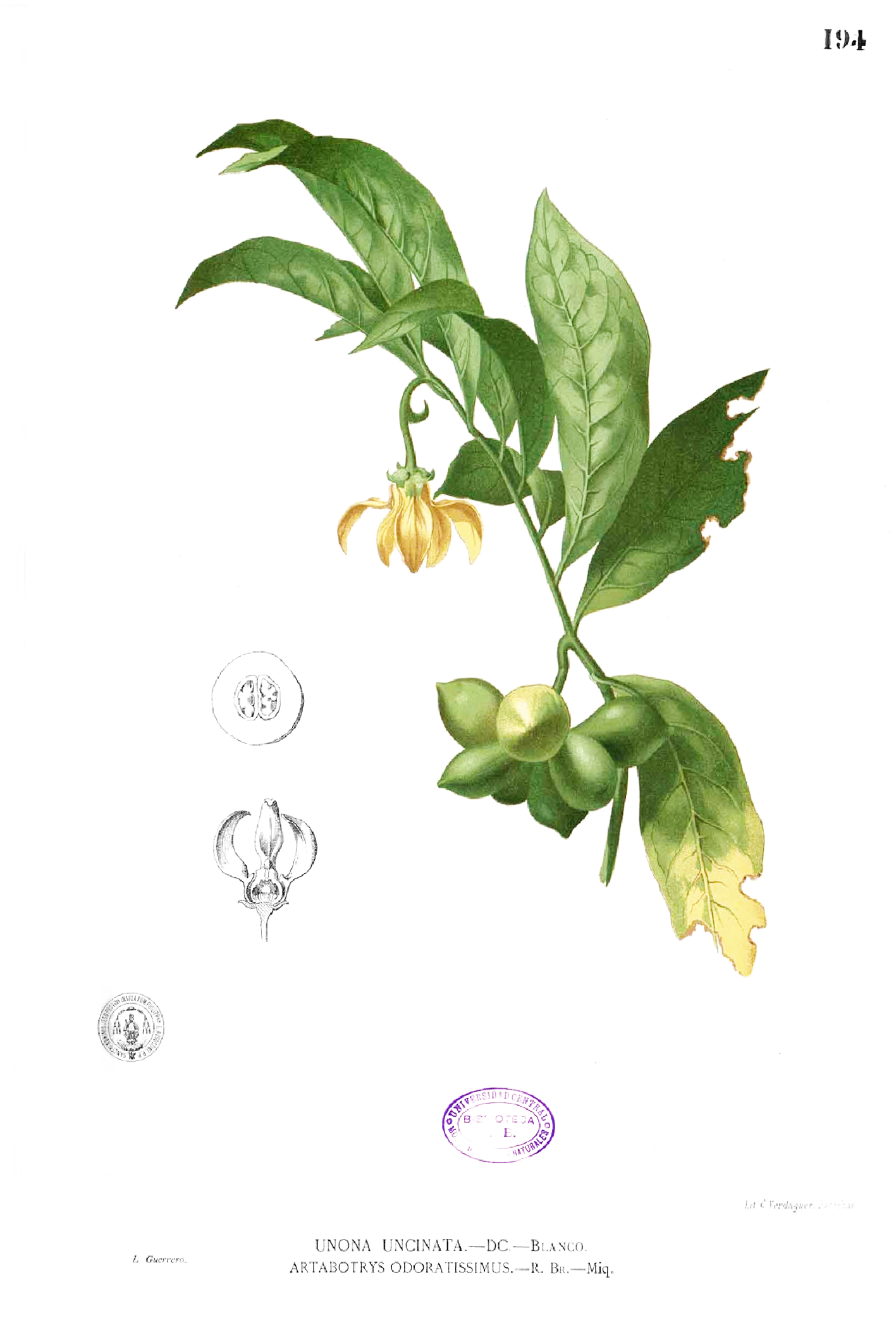 Plate from book